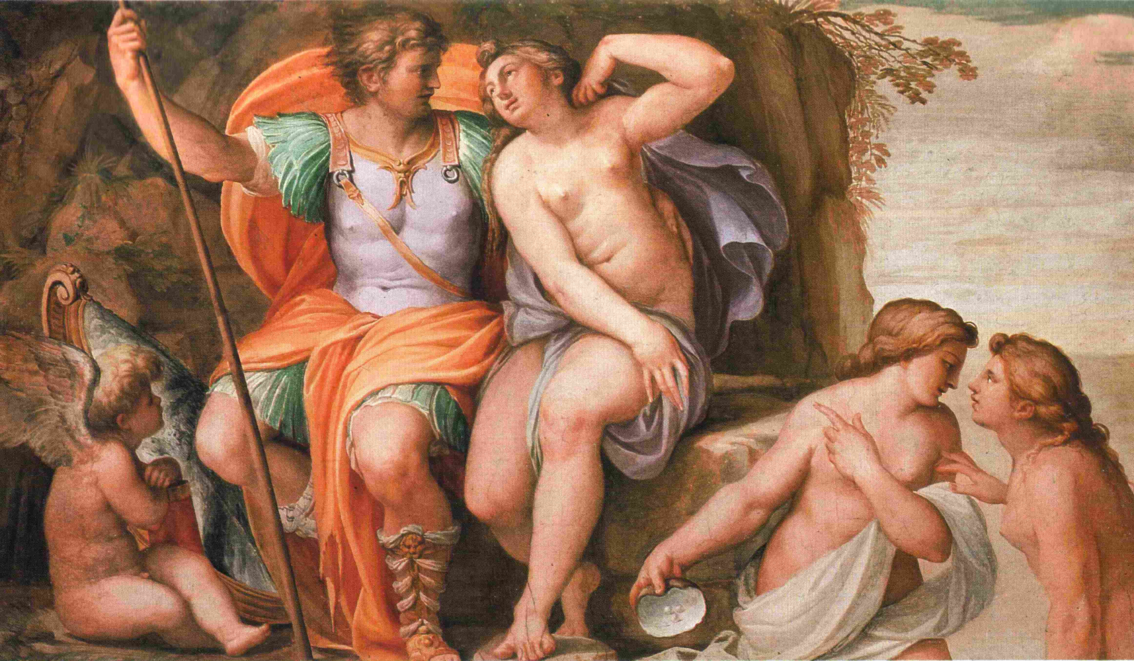 Venus and Mars, fresco by Agostino Carracci in the Palazzo del Giardino (Parma).